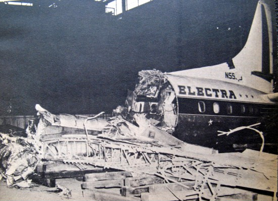 Photo of the crash of Eastern Air Lines Flight 375, a Lockheed L-188 Electra that was brought down by a bird strike in 1960. The photo was taken by the Civil Aeronautics Board (CAB) in the course of their investigation of the crash. The CAB is the precursor to today's National Transportation Safety Board (NTSB), and was a part of the Department of Transportation.